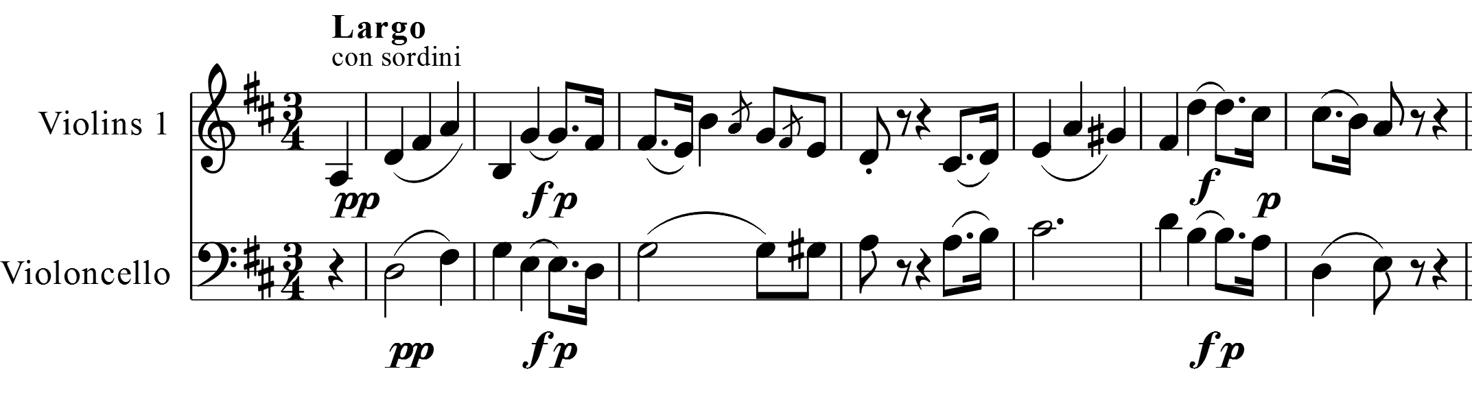 Joseph Haydn, Symphony No. 64, second movement, bar 1-7